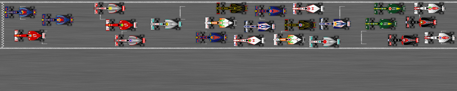 Race result of the 2011 European Grand Prix in Valencia